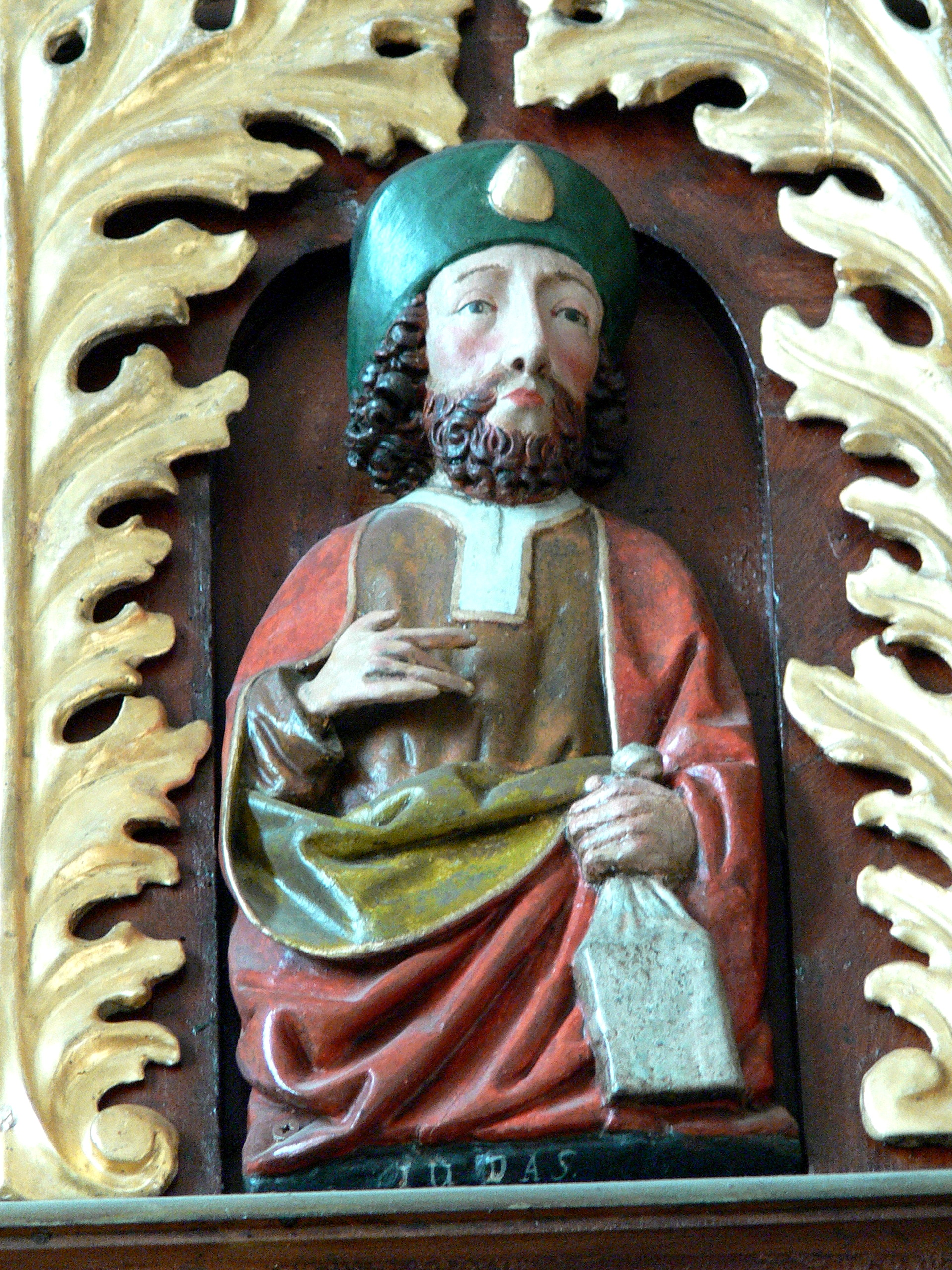 Parish church in Neufelden. Gallery of apostles: Relief of Saint James the Greater ( 1500 )